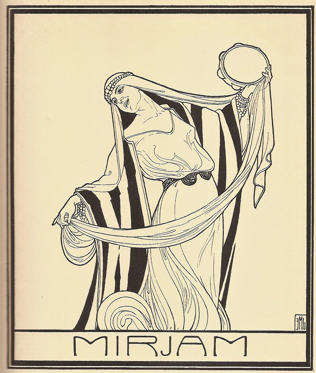 Mirjam, by Ephraim Moshe Lilien.